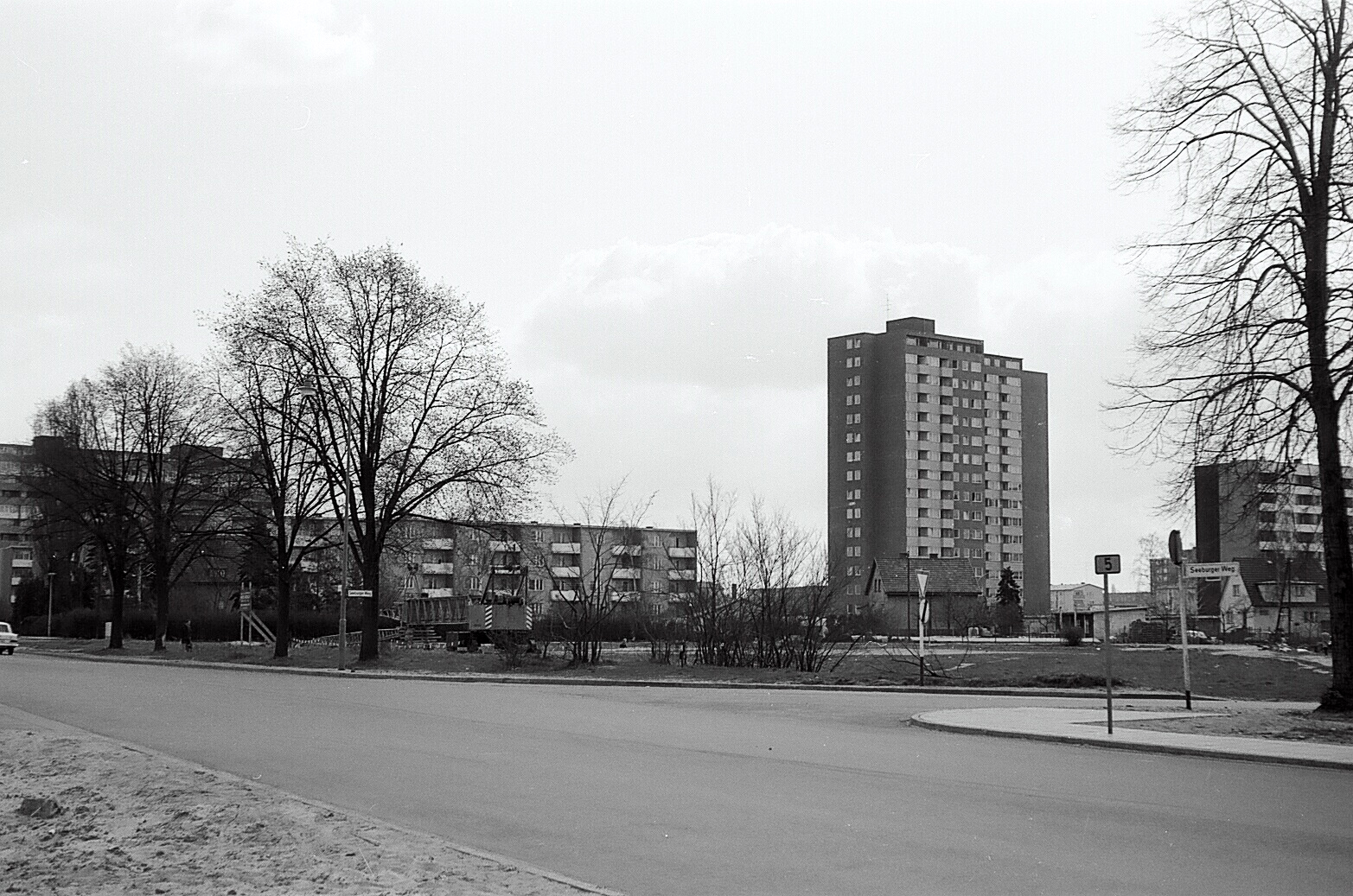 Southern side of the 5-end road crossing Seeburger Weg/Magistratsweg to Heerstraße.